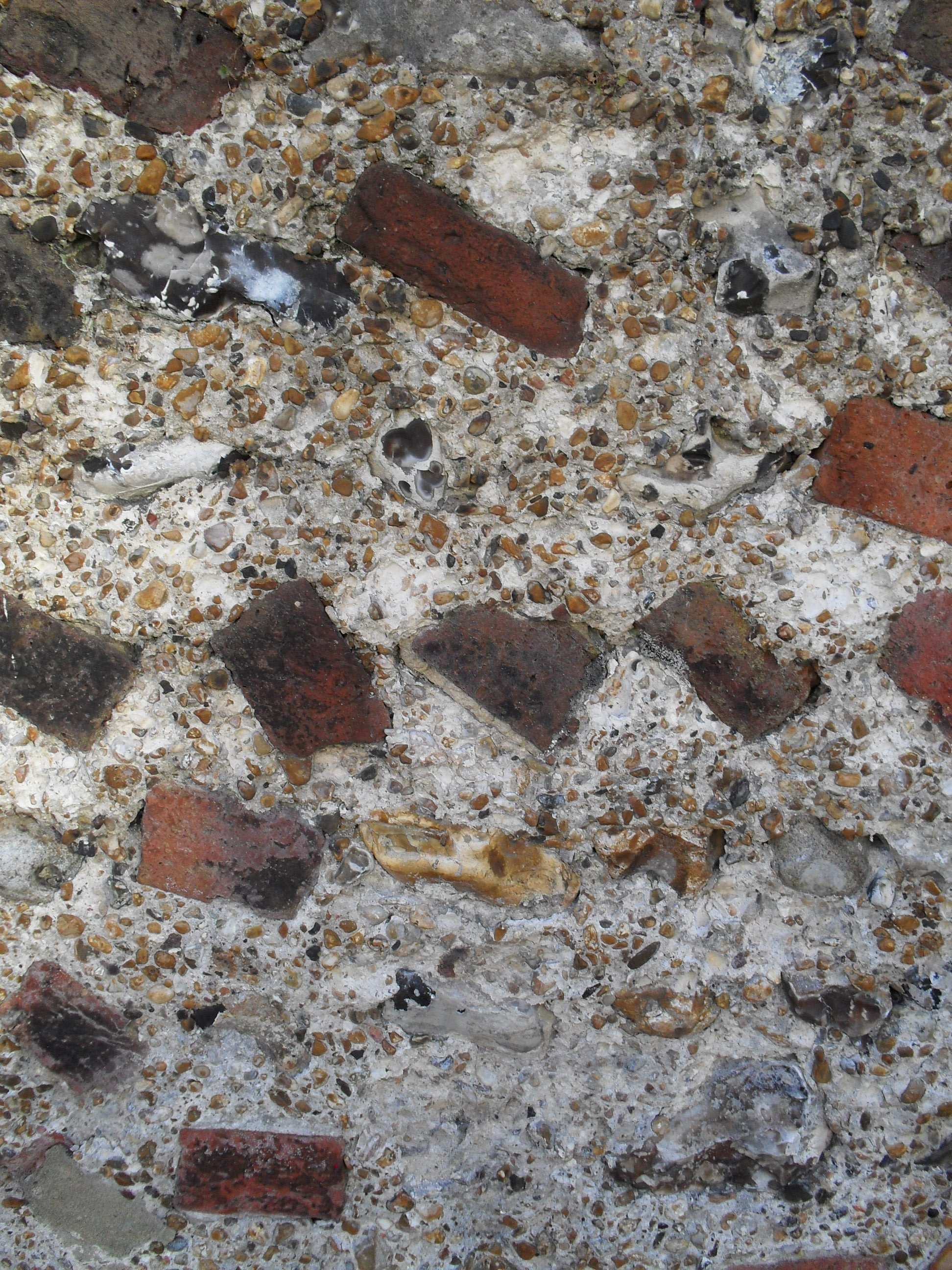 Close-up of a bungaroosh wall at Prince's Crescent in the Round Hill area of Brighton, England. Bungaroosh is a composite material comprising any of a wide variety of materials, such as broken bricks, flints, sand, fine pebbles etc. It is shuttered and set in hydraulic lime to make a cheap building material, used chiefly for walls. It was often used in Brighton between about 1750 and 1850, but is little known elsewhere.